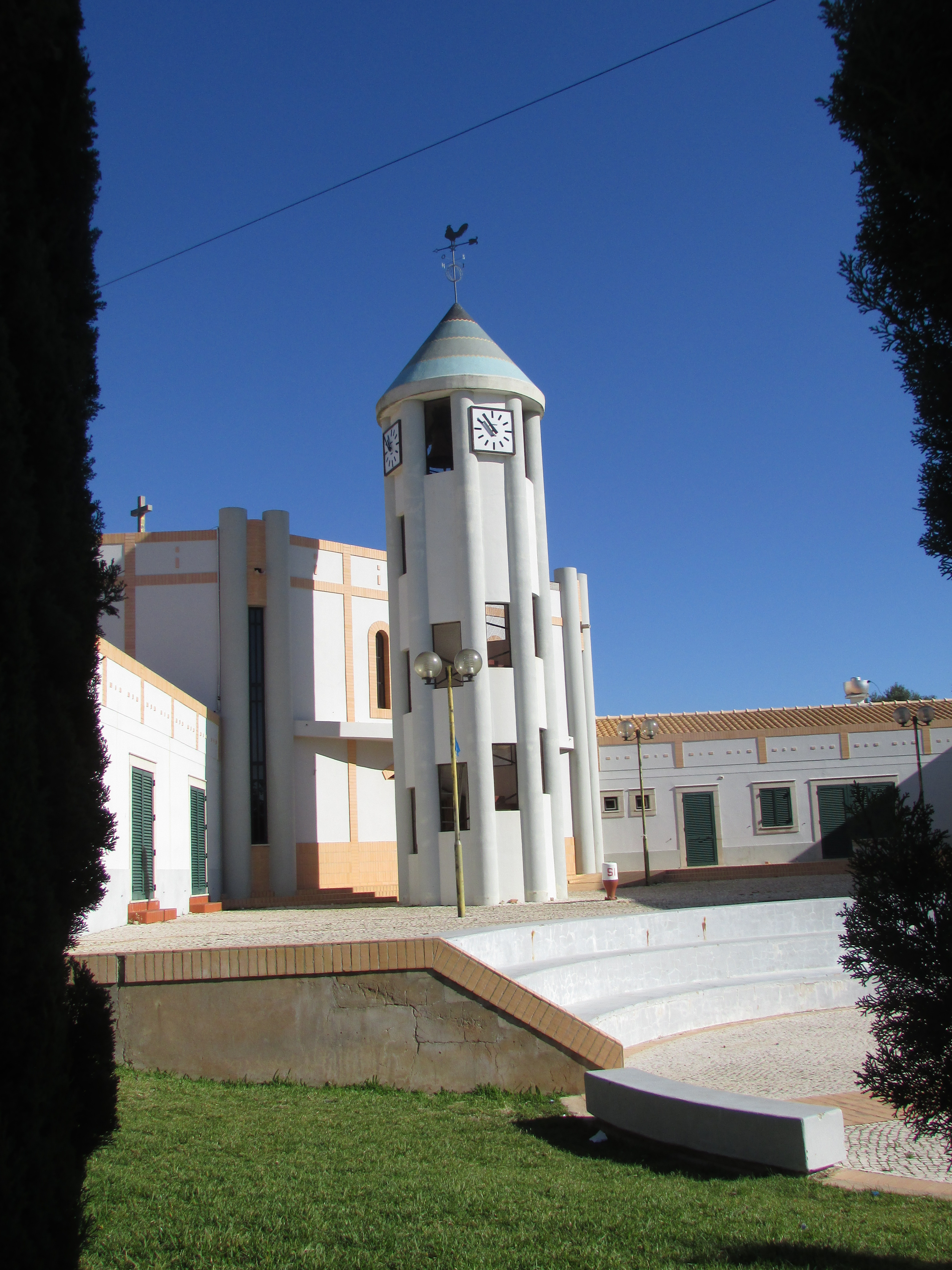 The bell tower of the Parish Church of São José de Ferreiras (Igreja Paroquial de São José de Ferreiras) in the village of Ferreiras Albufeira, Algarve, Portugal.